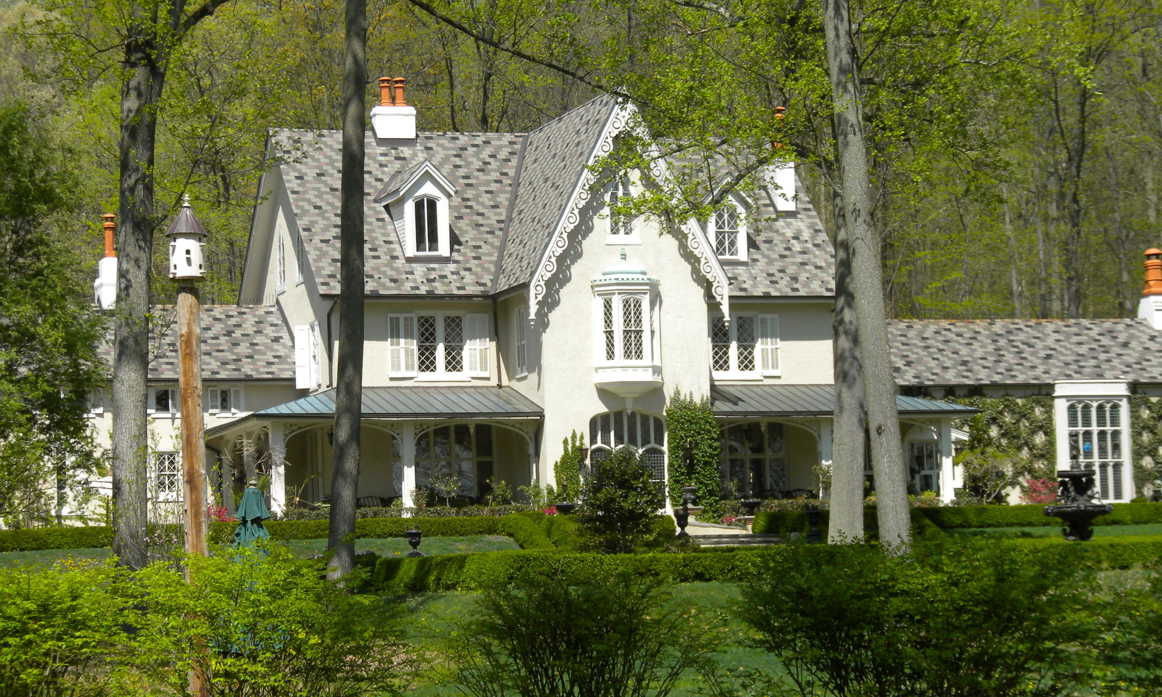 Hewson Cox House on NRHP since August 2, 1984. On Church Farm Road (near Old Valley Rd), West Whiteland Township, Chester County, PA. Fantasy type house in the middle of nowhere. Currently bears the name "Soledad" on post in front - this should not be confused with "Solitude Farm", also on NRHP and about 200 yards east